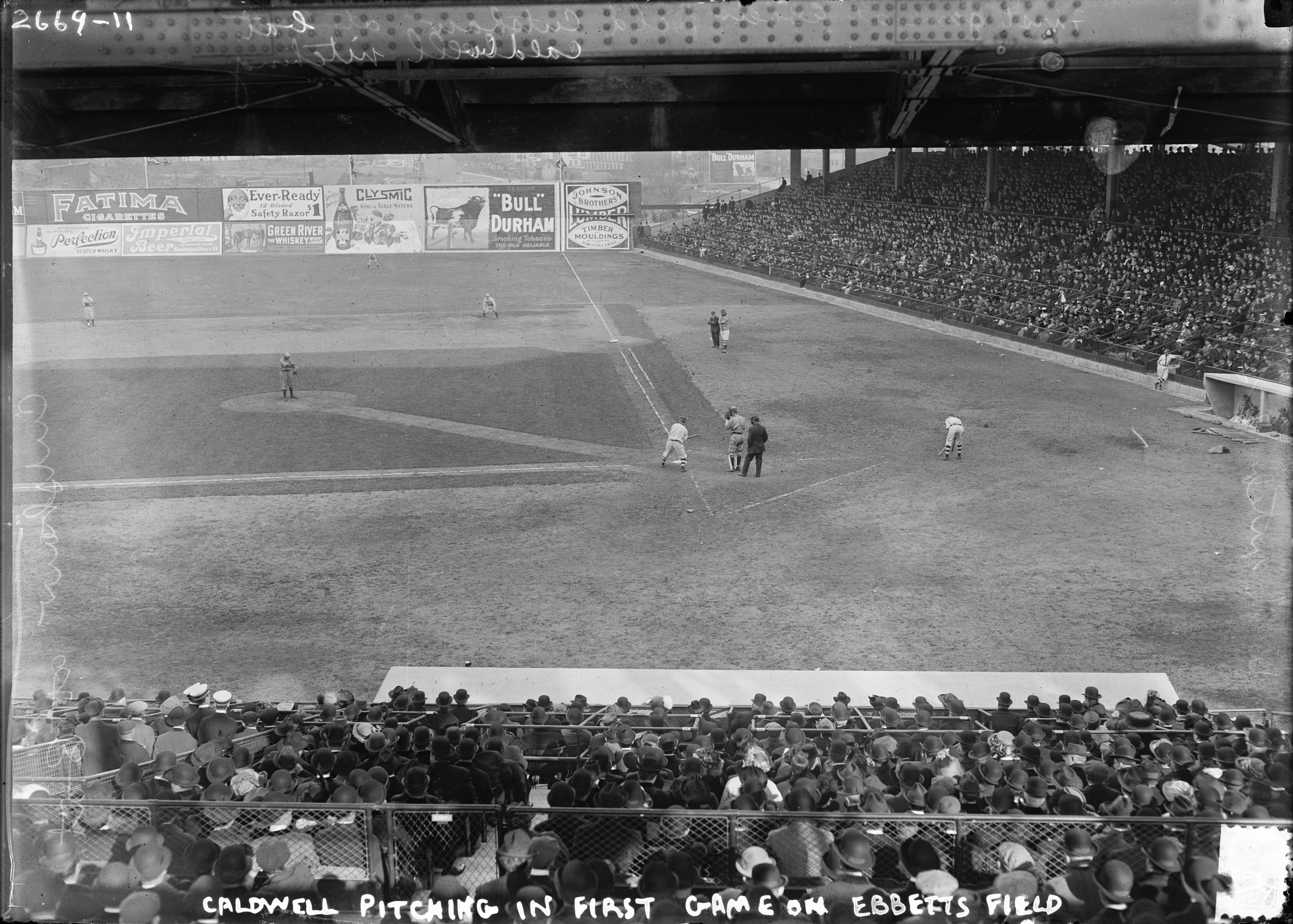 Ray Caldwell pitching in an exhibition game, which was the first game at Ebbets Field.